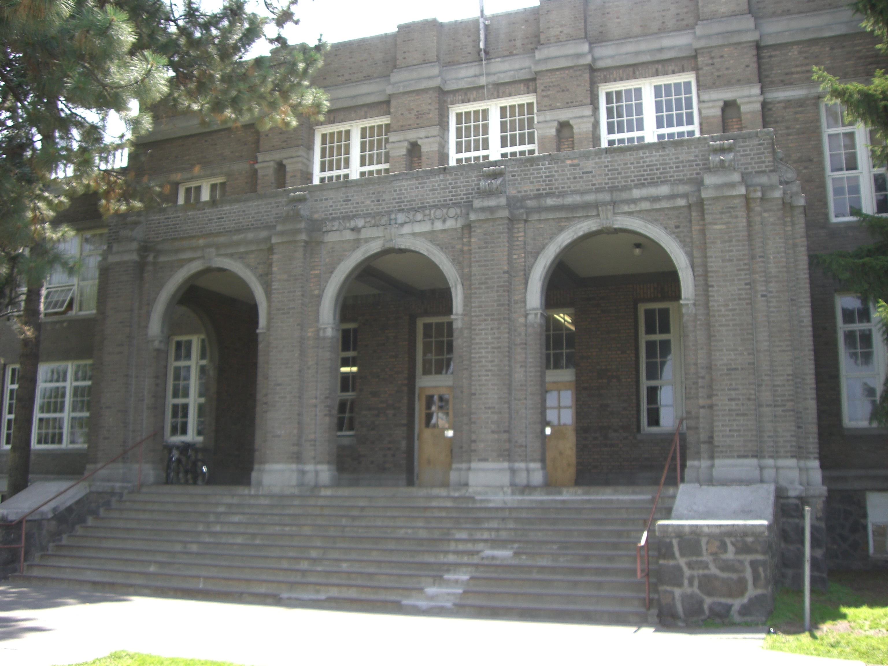 Main entrance to the Old Bend High School in Bend, Oregon, United States. The building is listed on the US National Register of Historic Places, and is now used by the Bend-LaPine School District for administrative offices.NRHP reference number 93000916